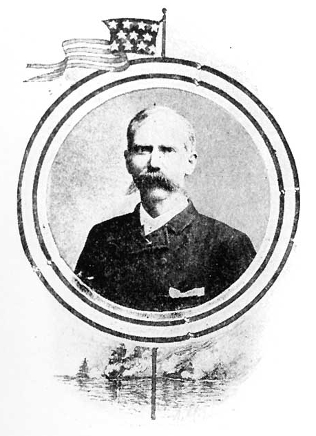 Ordinary Seaman William D. Newland, United States Navy. Halftone reproduction of a photograph, published in Deeds of Valor, Volume II, page 71, by the Perrien-Keydel Company, Detroit, 1907. William D. Newland received the Medal of Honor for his conduct as a loader on USS Oneida's after 11-inch gun during the Battle of Mobile Bay, 5 August 1864, during the American Civil War.